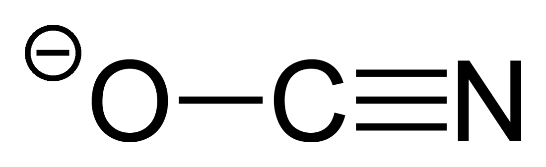 Cyanate ion